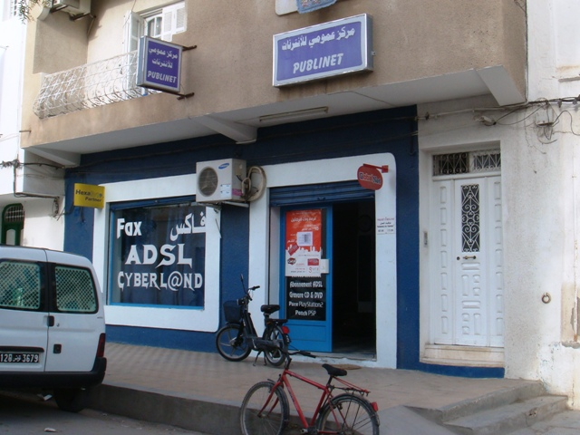 Publinet Syberl@nd